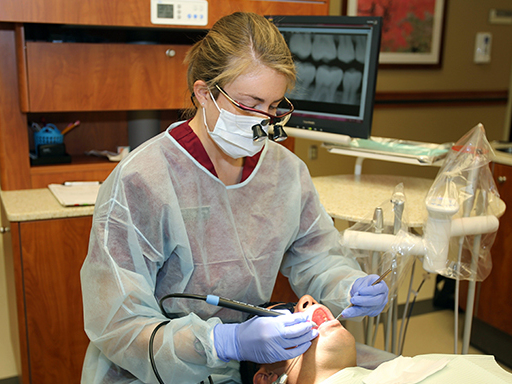 Dental Hygienist Prophy